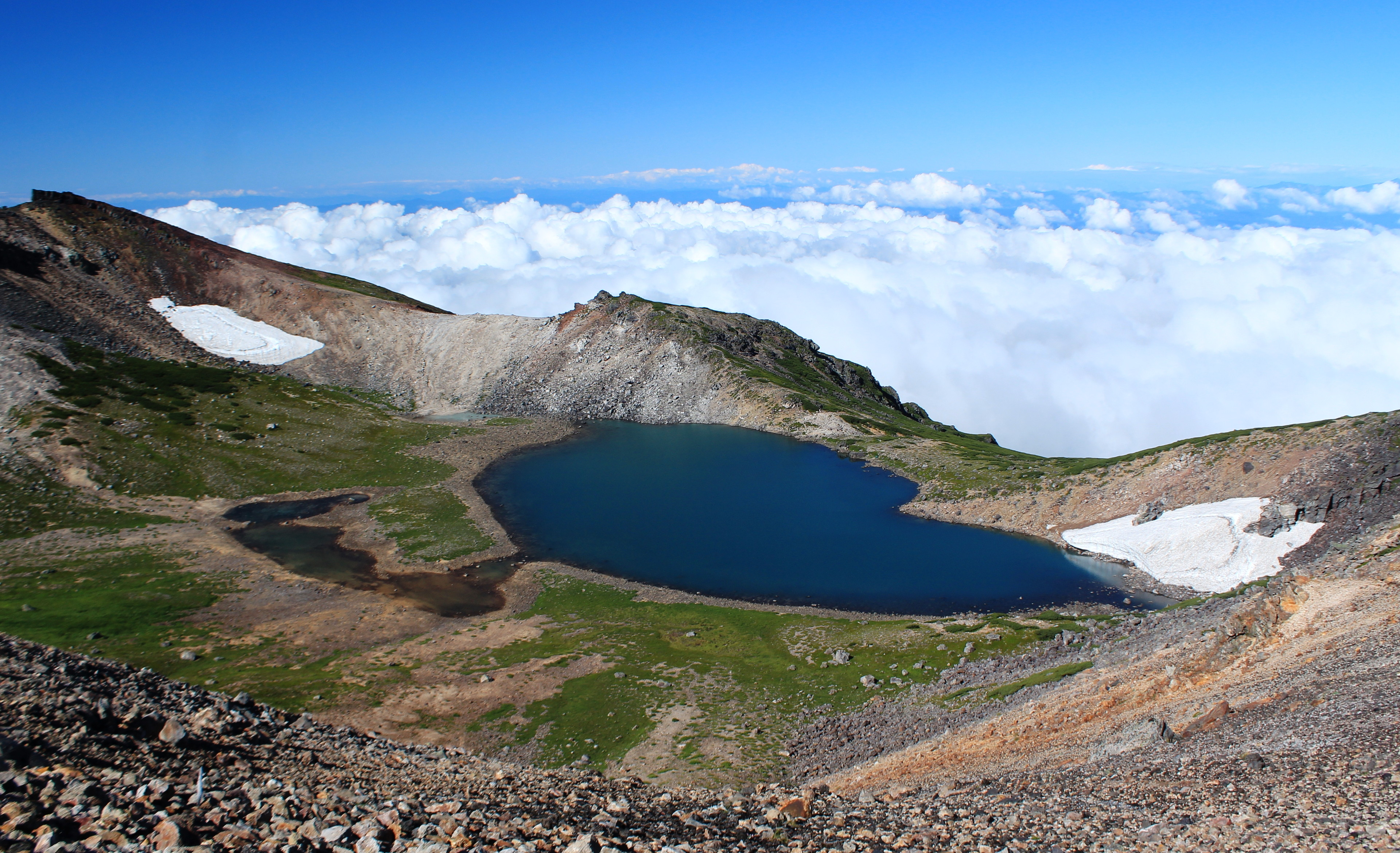 Gongen pond of Mount Norikura